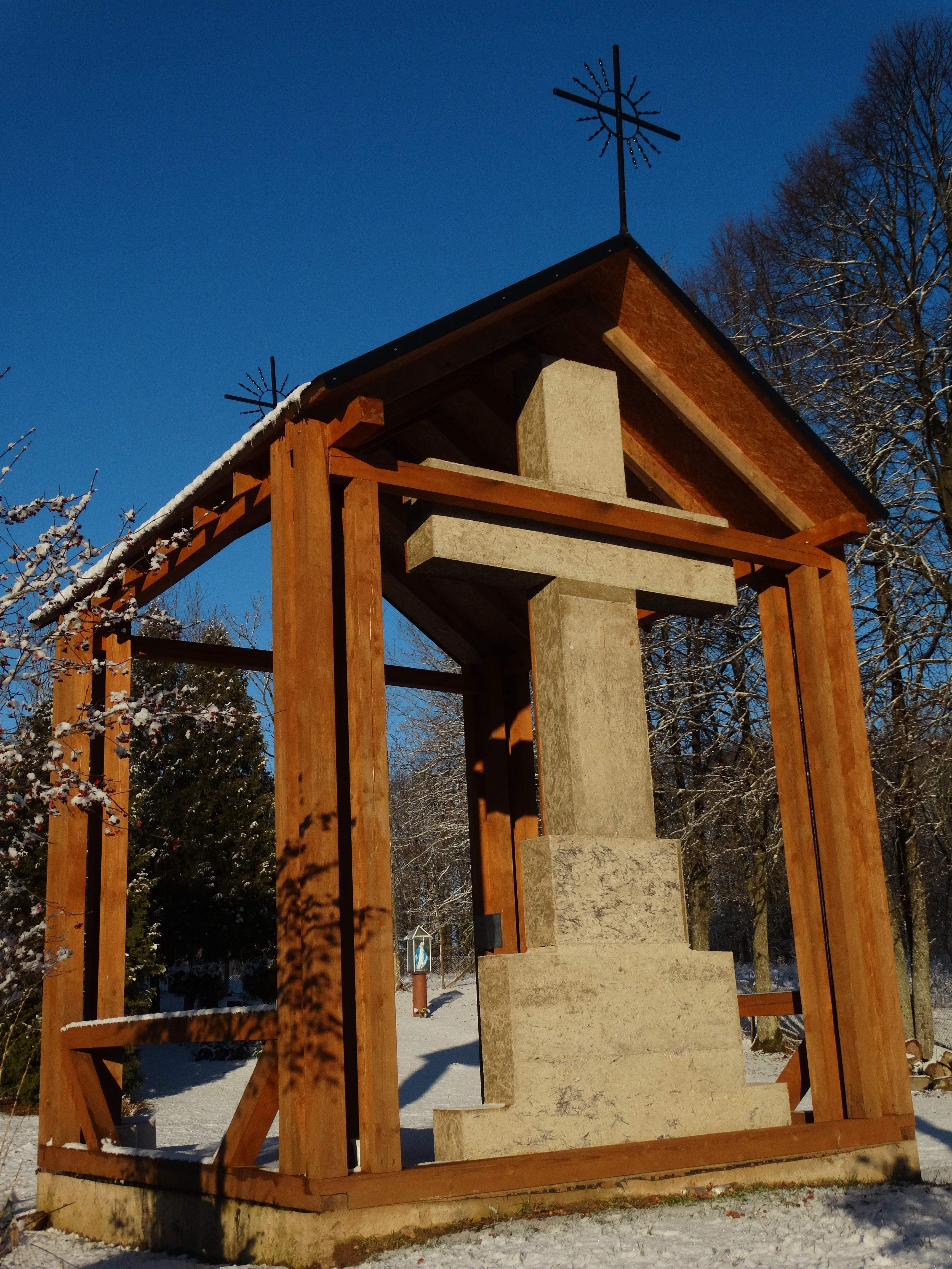 Chapel, Pažėrai, Jurbarkas district, Lithuania